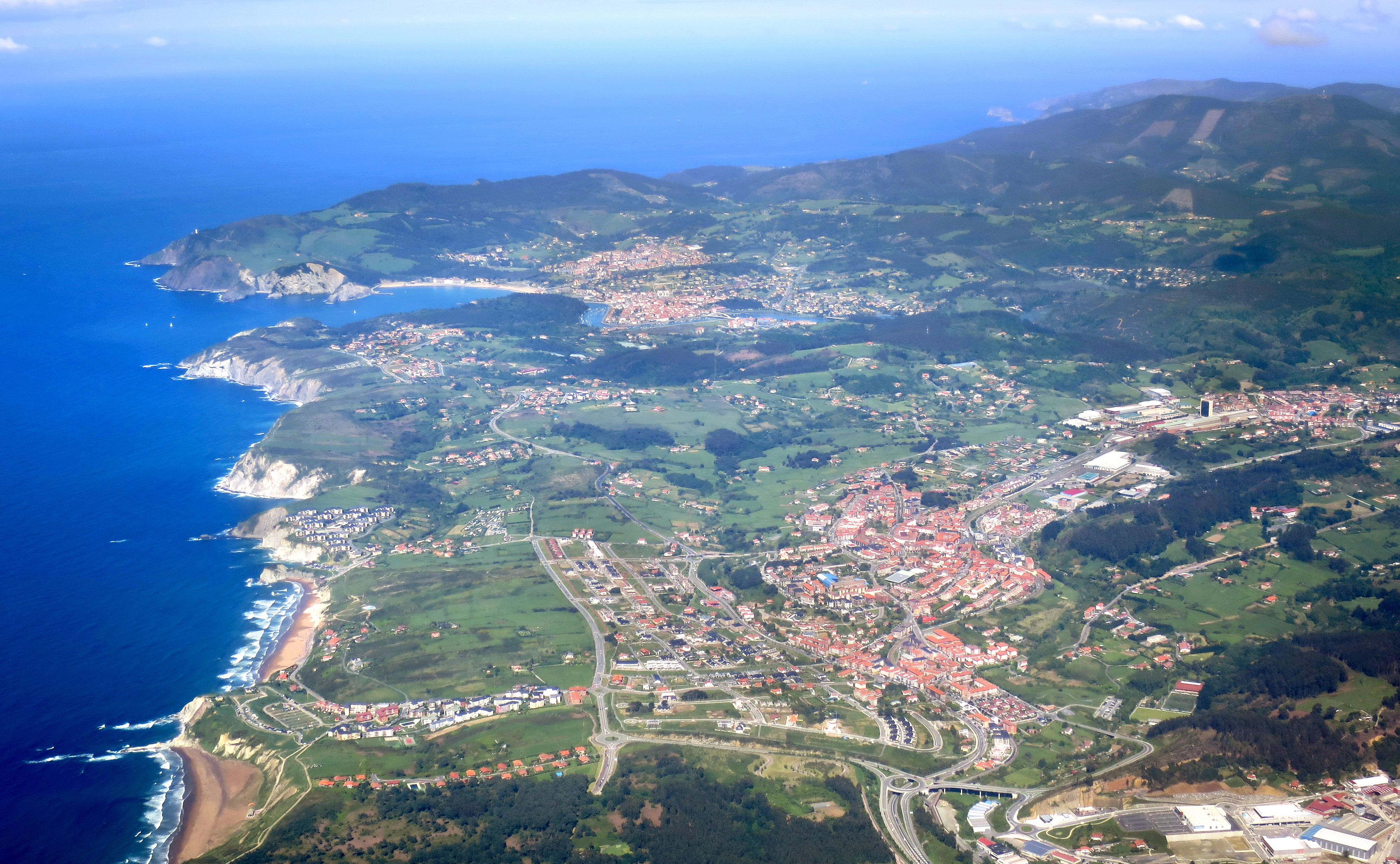 An aerial view of the coast north of Bilbao including the town of Sopela.